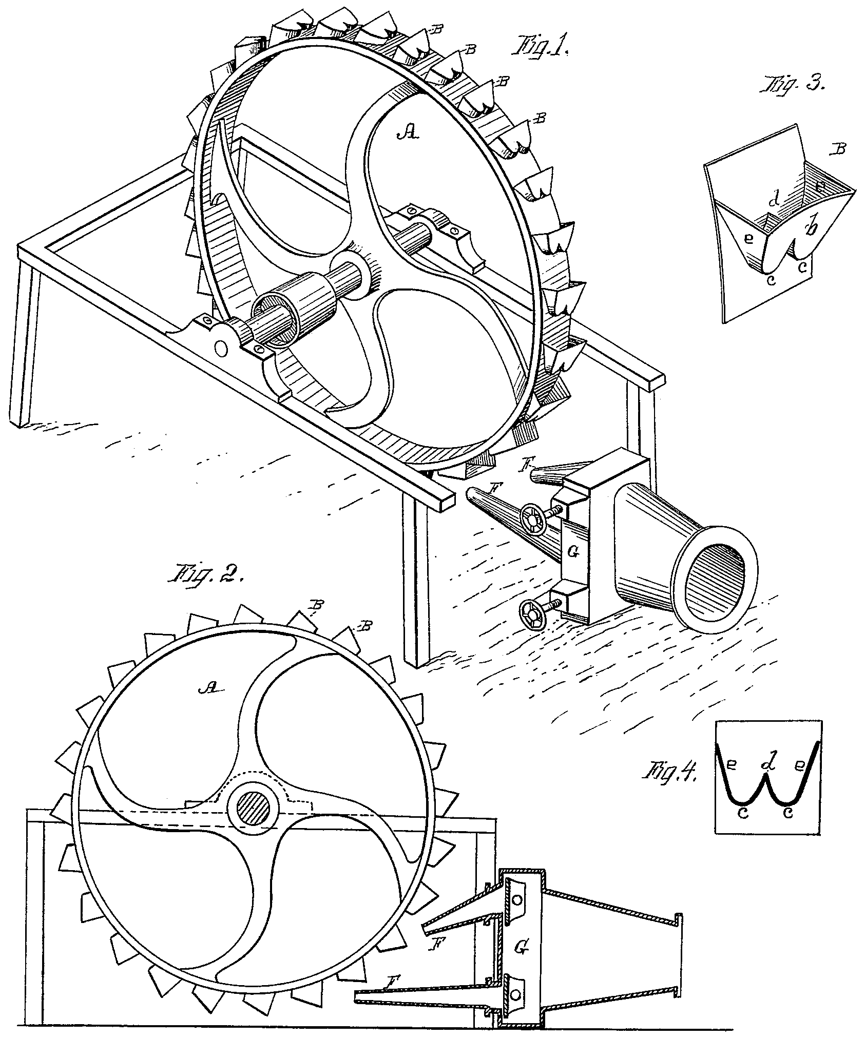 Drawings of Pelton water wheel (Pelton turbine)